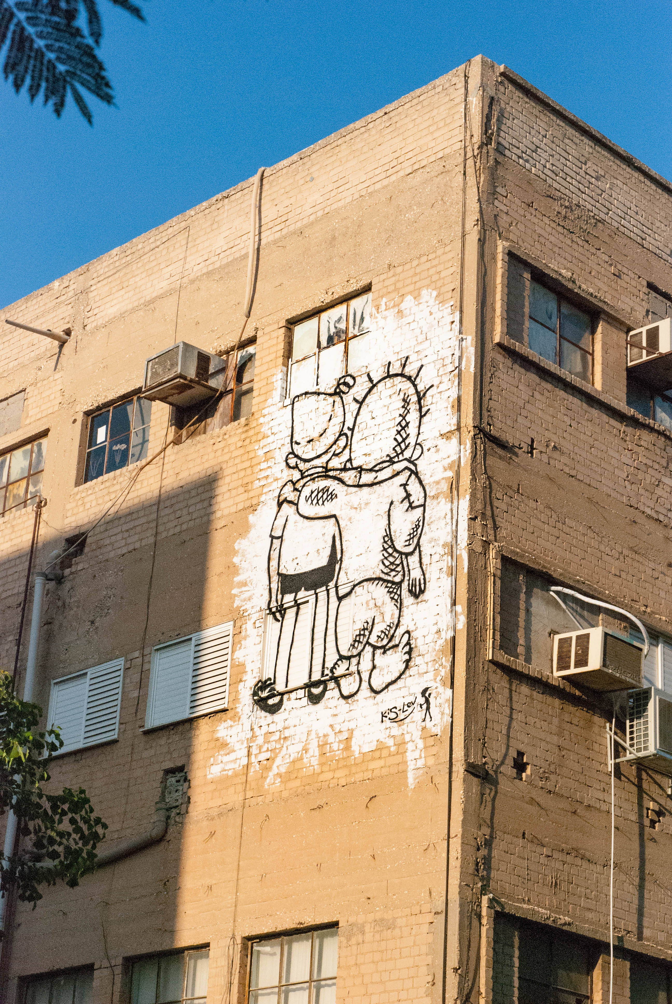 Graffiti Tel Aviv, Ha-Rav Yitskhak Yedidya Frenkel St- front